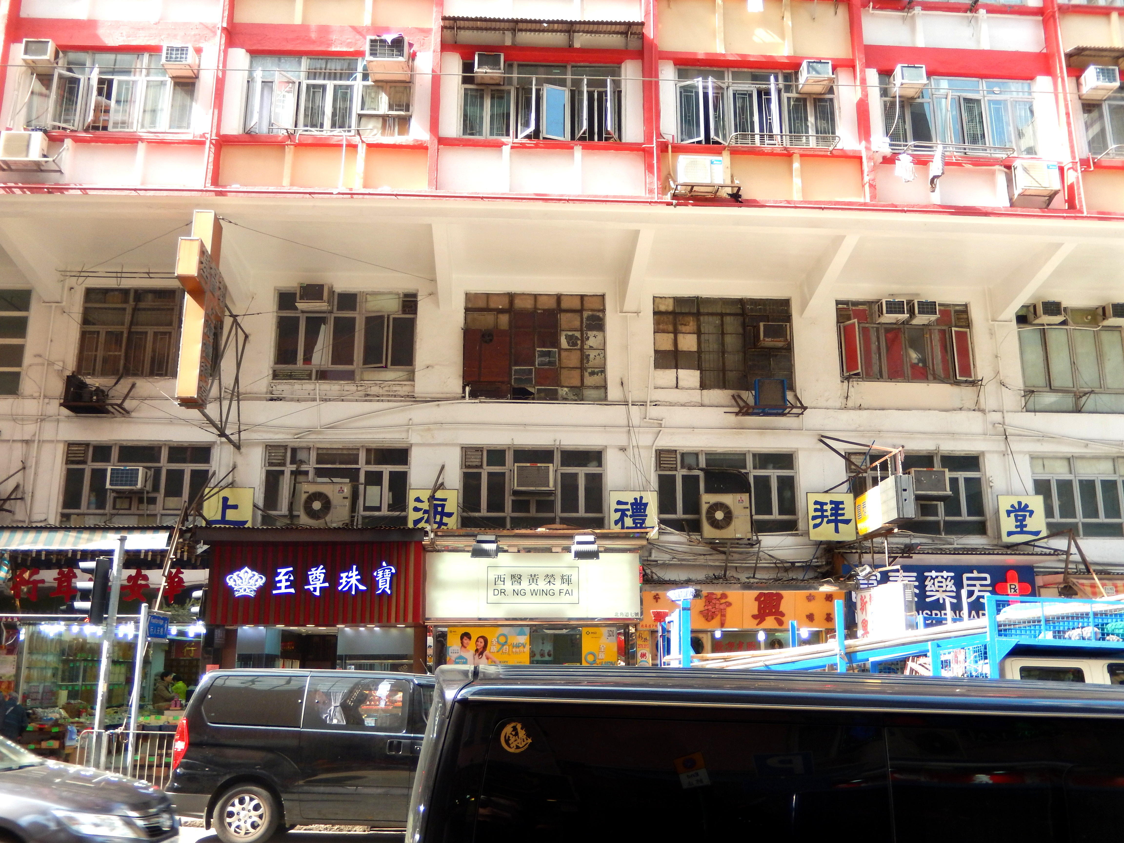 Christian Shanghai Church in North Point Road, North Point, Hong Kong. Shanghainese, Mandarin and Cantonese are used.